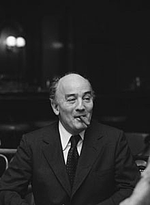 Guy des Cars